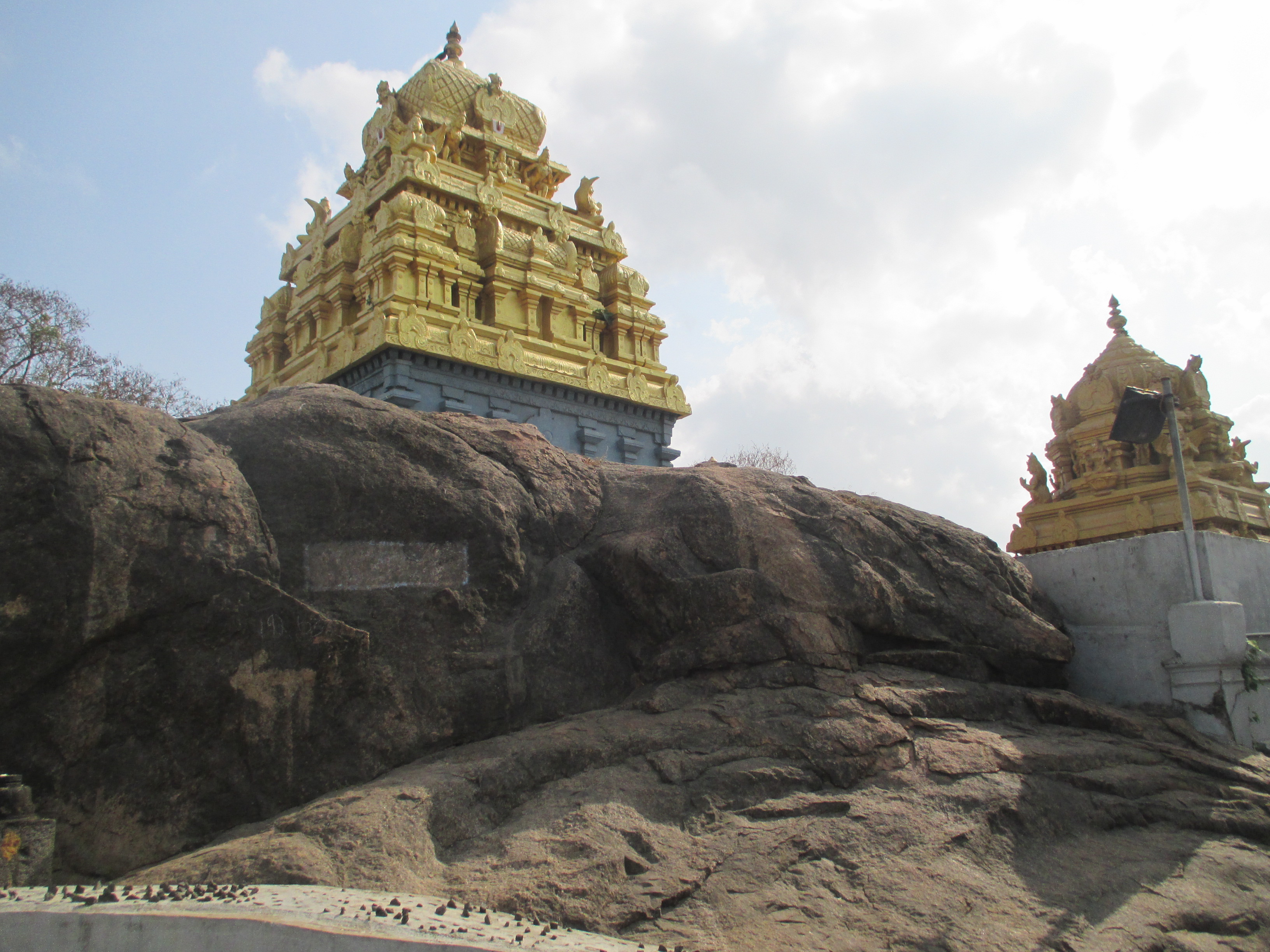 Singaperumalkovil